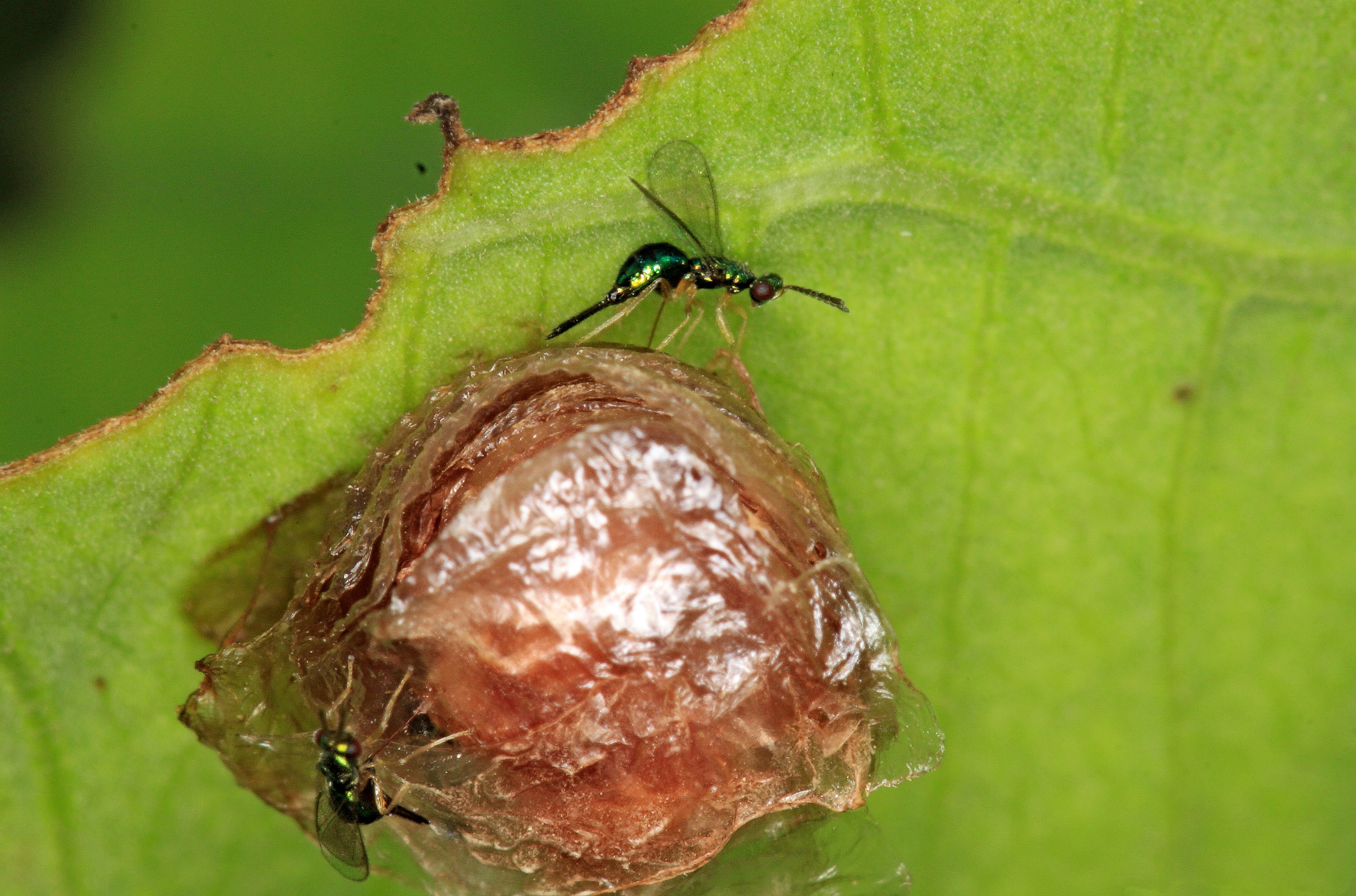 Egg mass (ootheca) of Aspidomorpha miliaris (F 1775) are being parasited by Chalcid wasps (Chalcidoidea: Tetracampidae), length ca. 1.5 mm. Host plant: sweet potatoes (Ipomoea batatas) and some kinds of beans parasite: in the literatur (Handbuch der Pflanzenkrankheiten, Paul Parey Berlin 1932, p.227) only one Chalcid wasp species is quoted: the larval parasite (Larvenparasit): Cassidocida aspidomorphae Crawf., only a guess! Family: Tetracampidae FÖRSTER, 1856 ? [det. John La Salle, 2011, based on this photo], more info: Superfamily: Chalcidoidea (Chalcid wasp, Erzwespen) Suborder: Apocrita Order: Hymenoptera Class: Insecta ___________________________________________________________________________ 100mm 2.8 (canon) with 32mm (12+20mm) extension rings; 1/160s, f/13, ISO400, 0EV (IMG_4723)